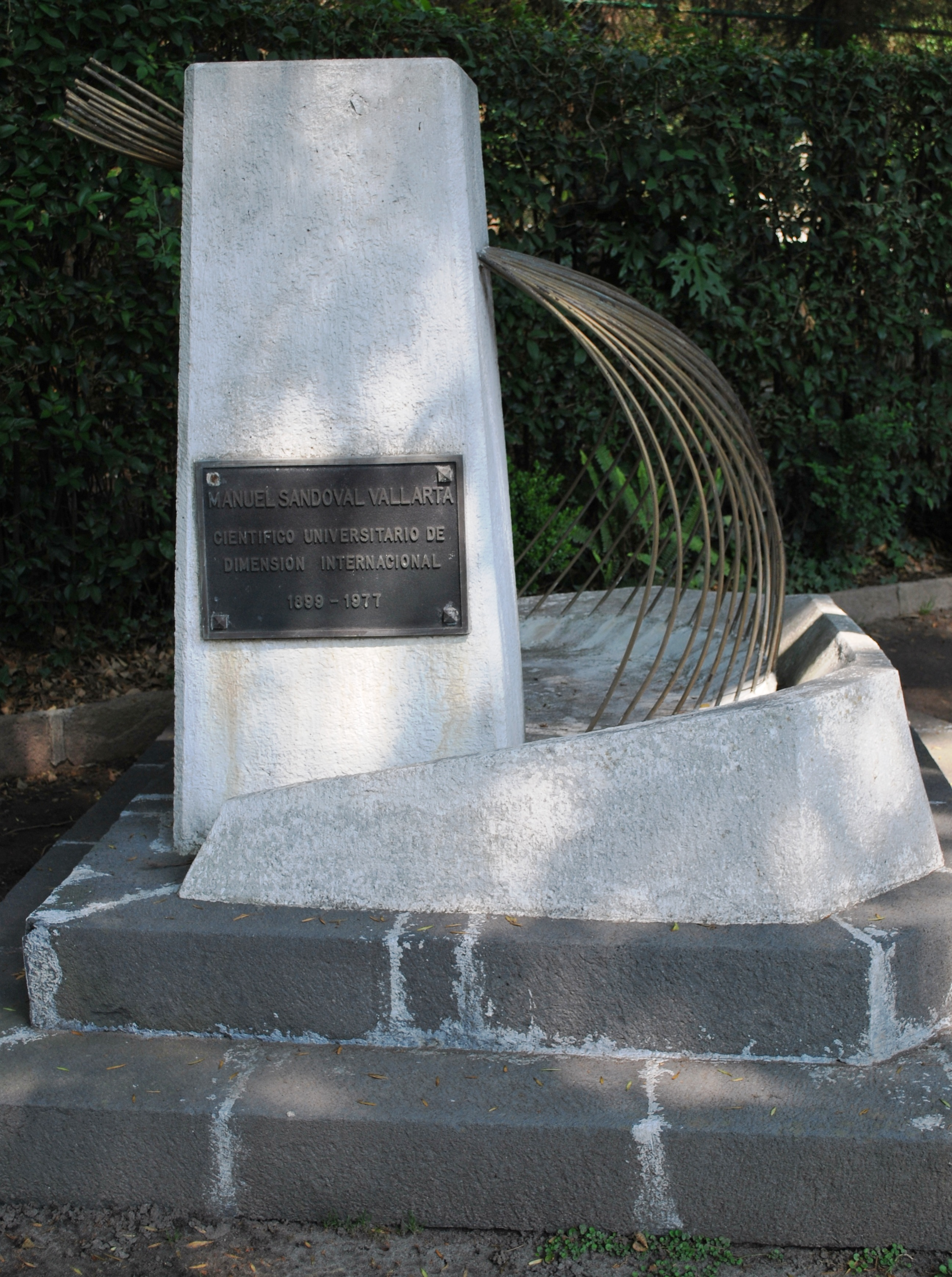 Tomb of Manuel Sandoval Vallarta in the Panteon Civil de Dolores cemetery in Mexico City